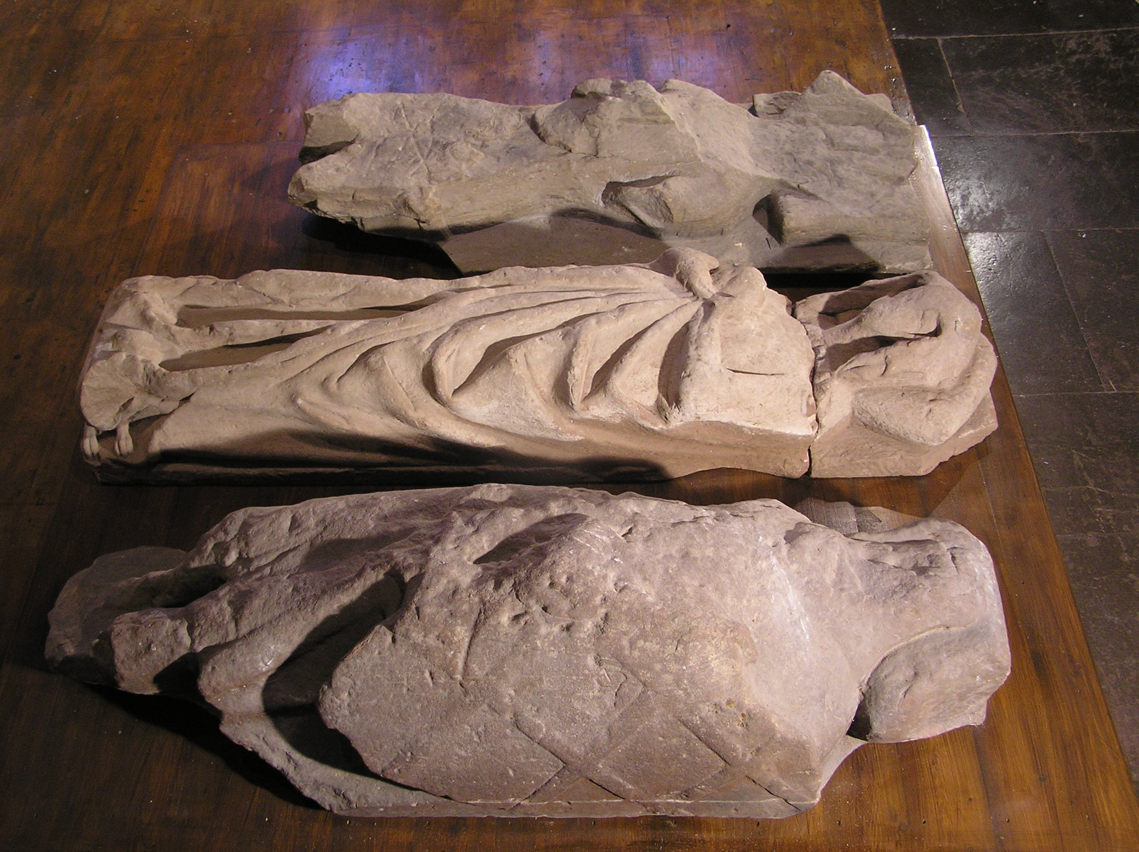 Three medieval effigies at St Bees priory. Top: though to be Anthony de Lucy d. 1368, Middle: thought to be Maud de Lcy d 1398, Bottom: a member of the de Harington family, possibly Robert, died 1298.